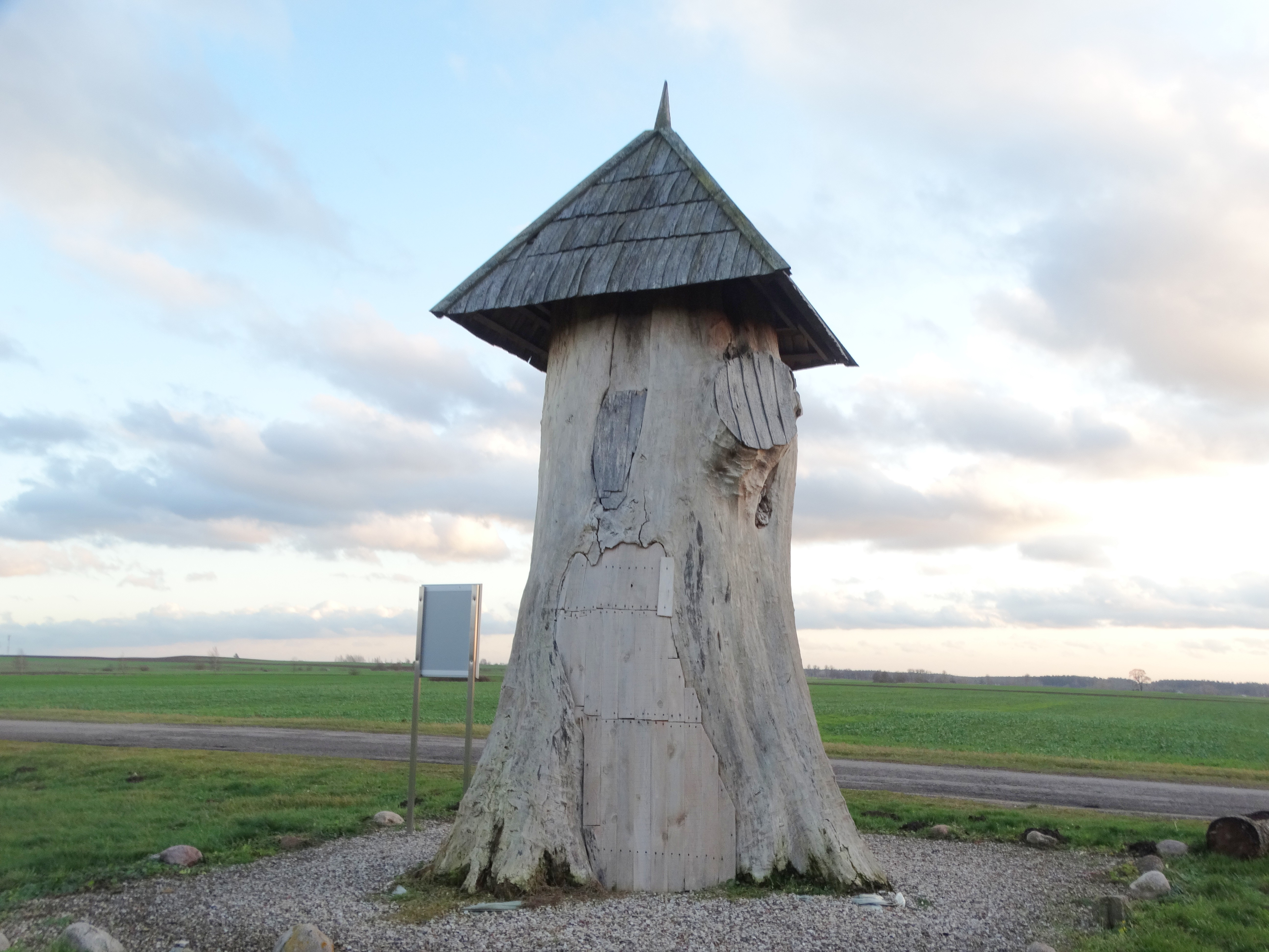 Karpis poplar by Paštuva, Kaunas District, Lithuania